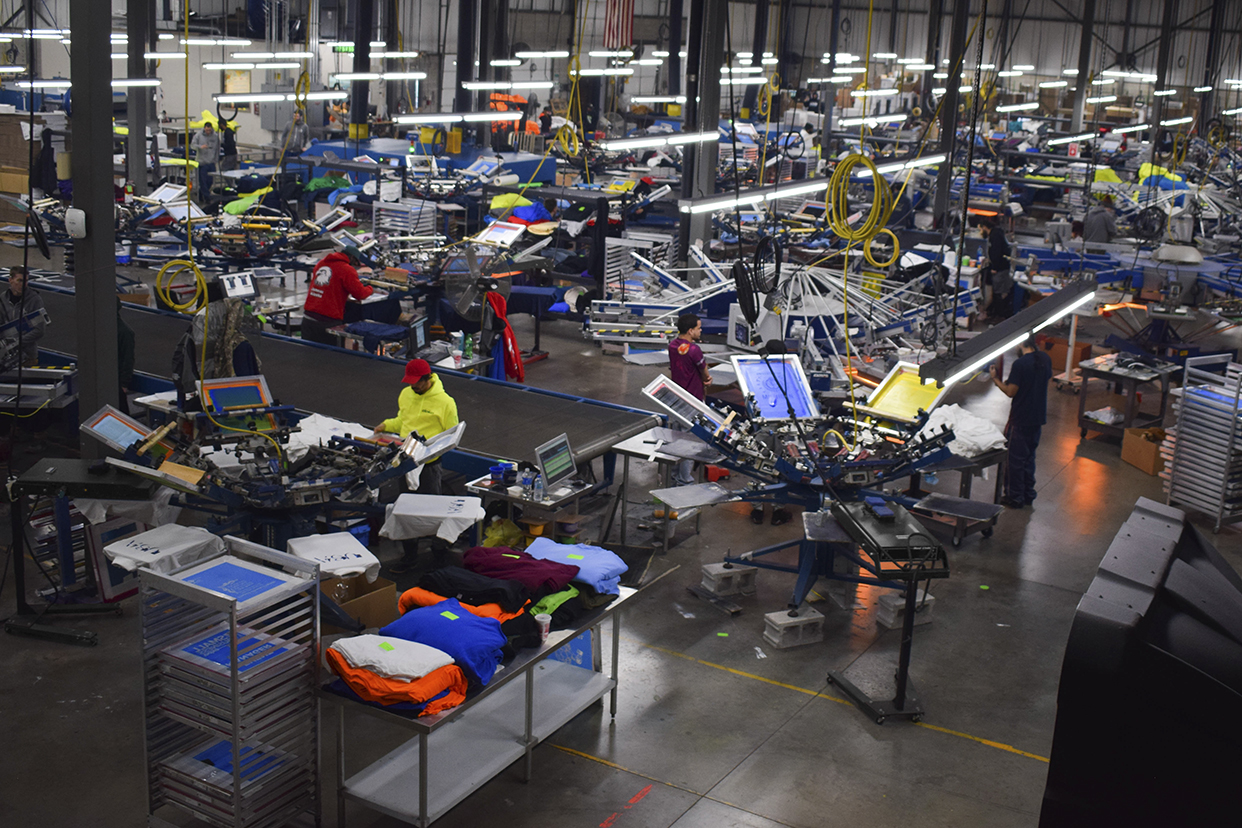 The image depicts the t-shirt printing and design facility of RushOrderTees in Philadelphia, Pennsylvania.